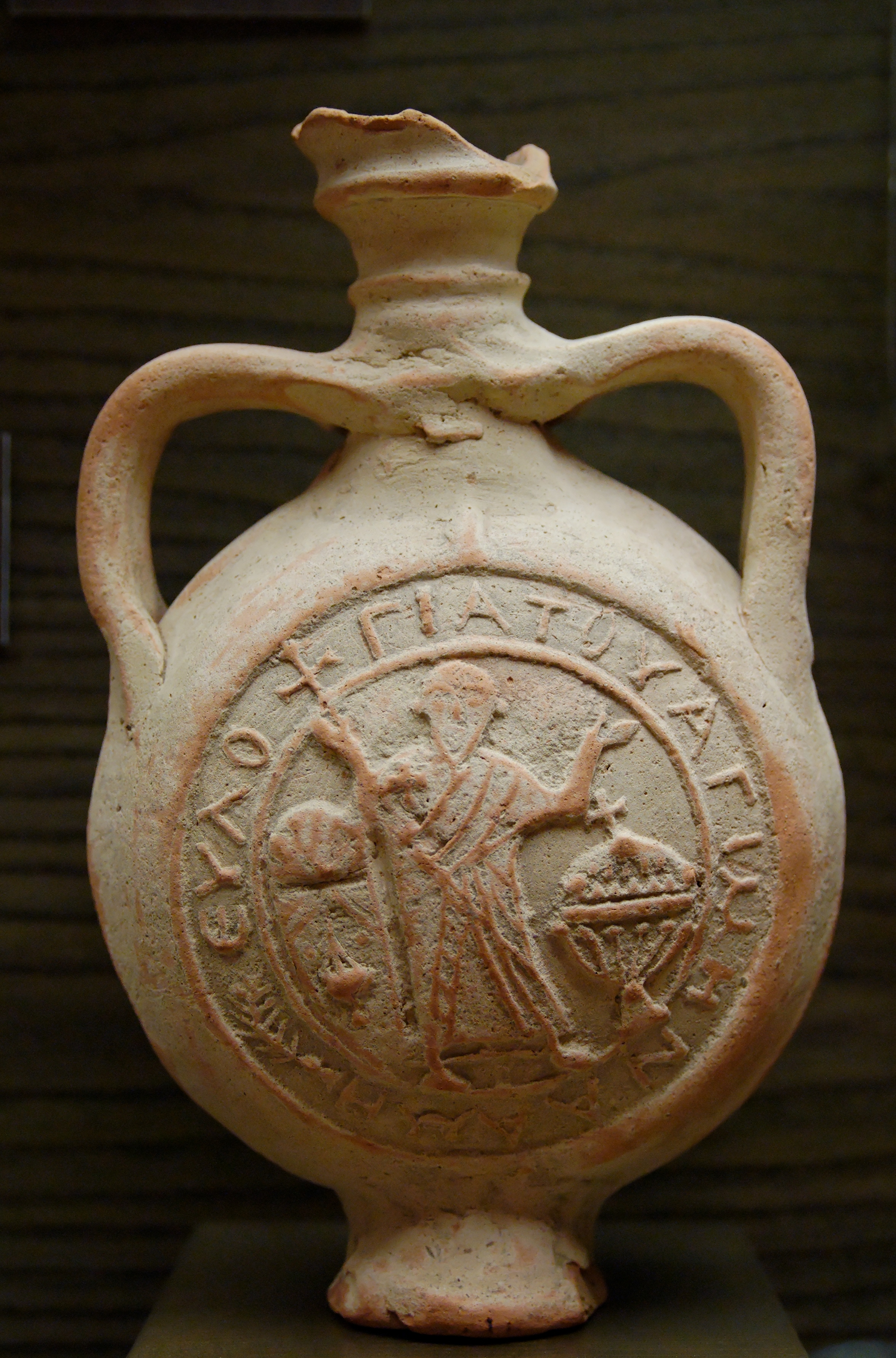 Pilgrim flask represening St. Menas and St. Thecla.